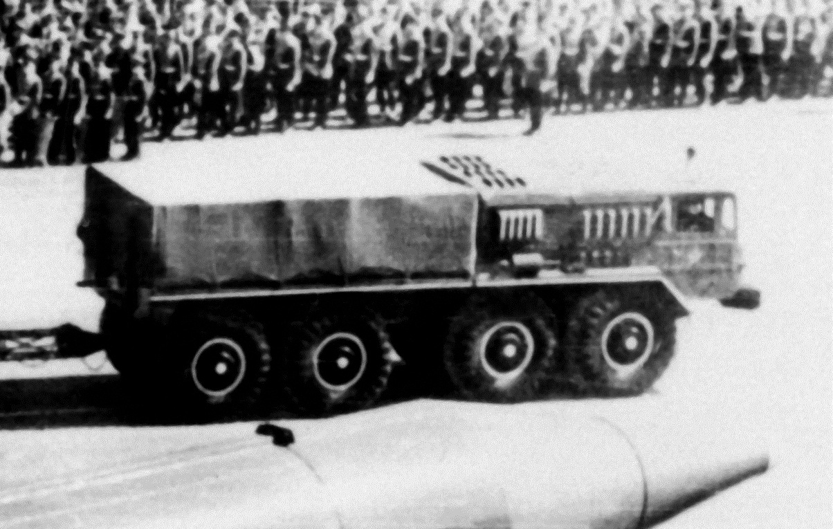 A heavy soviet truck MAZ-535.